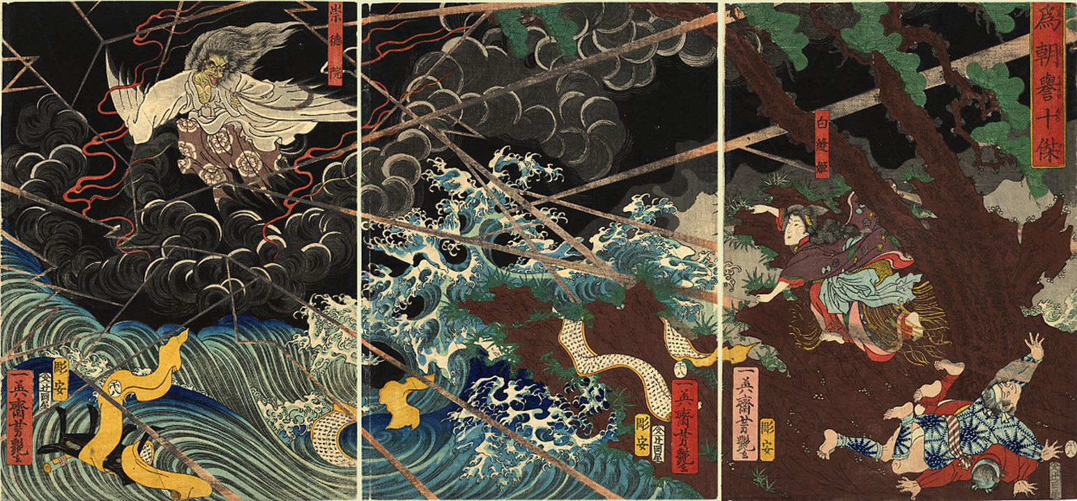 The Lightning Bolt. The print depicts Sutoku after his abdication becoming a demon (onryō) and Princess Shiranui fighting the evil Sotoku-in. Triptych, 29" x 14". From the series Ten Heroes of the Tametomo.